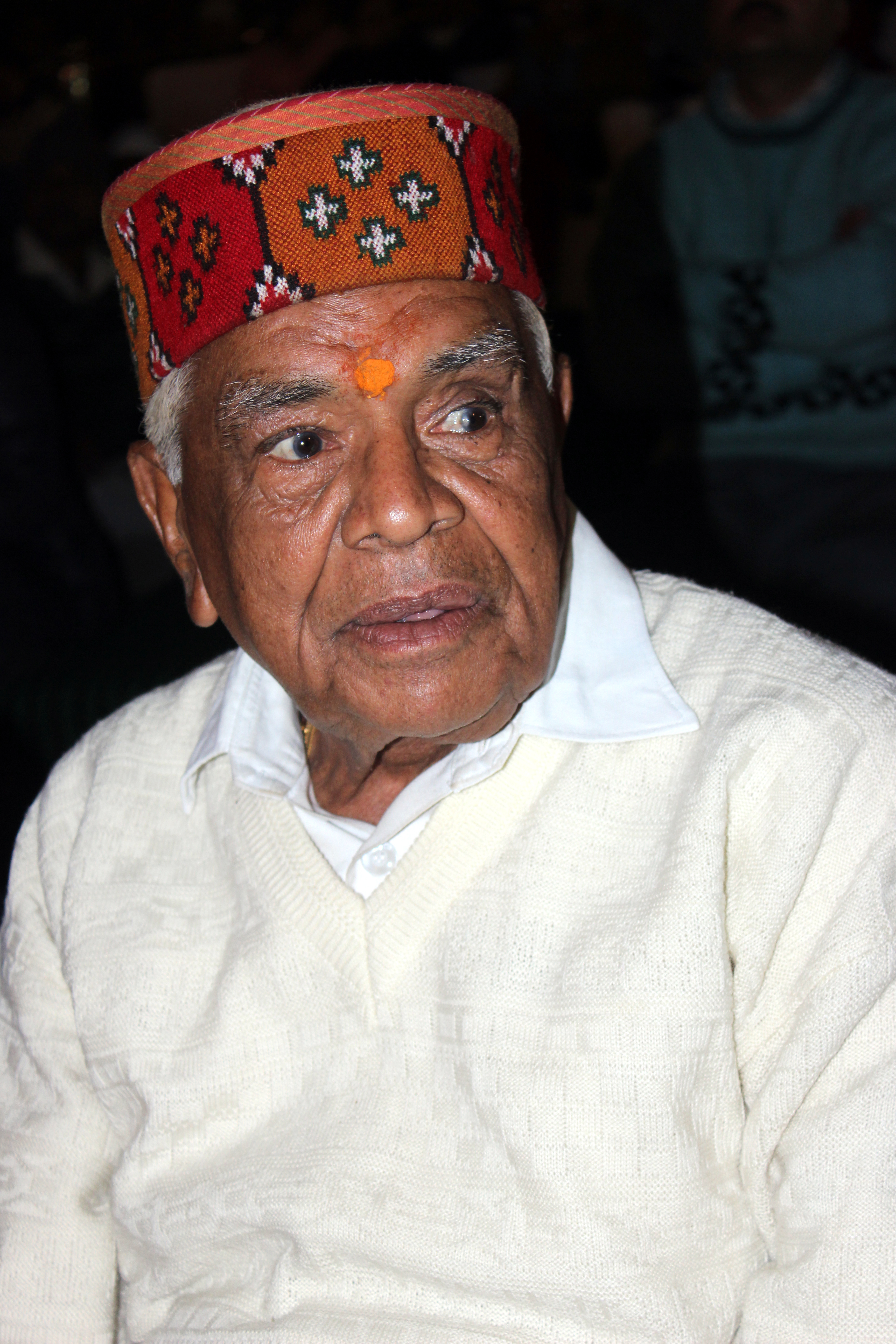 Babulal Gaur, Ex-Chief minister of Madhya Pradesh, India